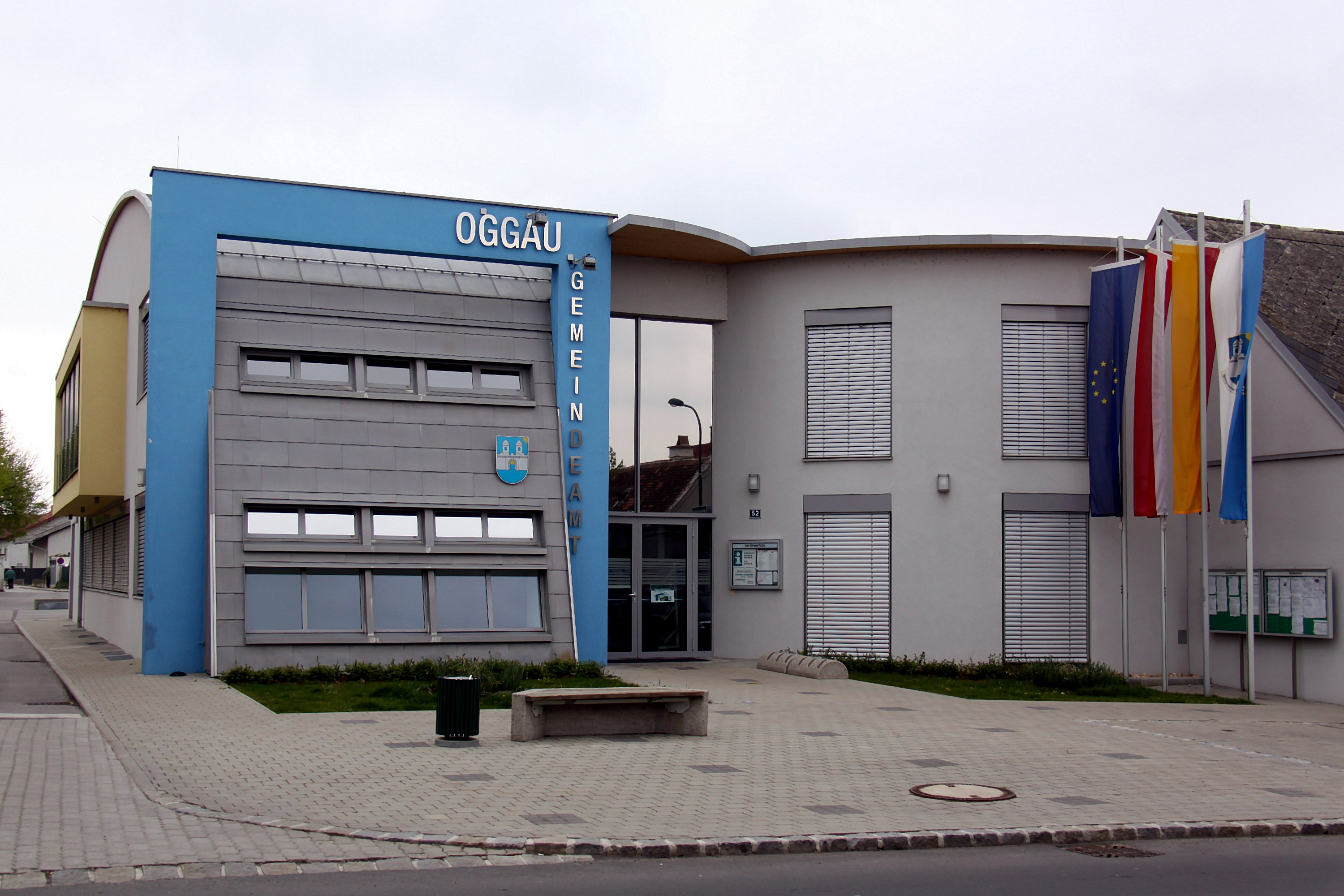 Oggau am Neusiedler See - Municipal office